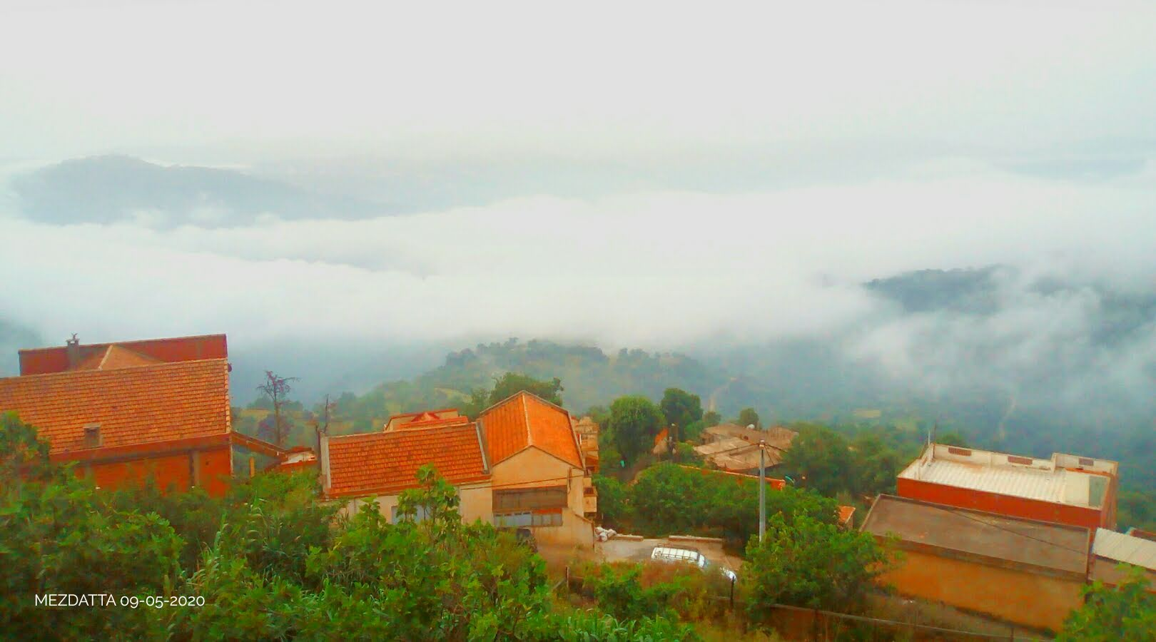 Mezdatta picture (Imezdaten)